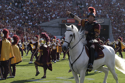 I took this picture myself at a USC Football game. Please observe license and properly cite in use outside Wikipedia.